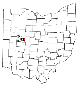 Adapted from Wikipedia's OH county maps. Created by SwissCelt.